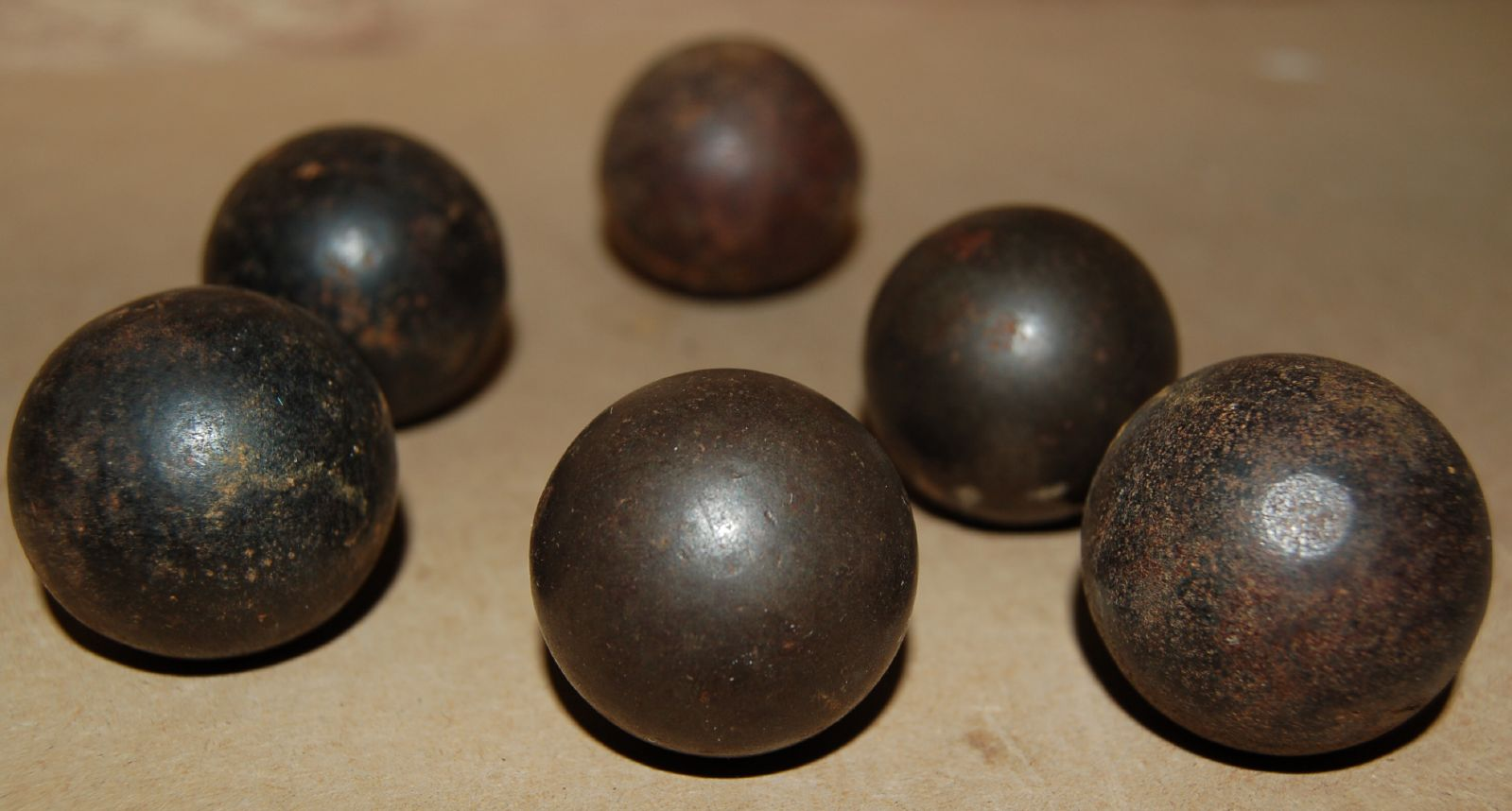 Matchlock musket balls, alleged to have been discovered at Naseby battlefield. From the collection of Northampton Museum and Art Gallery.